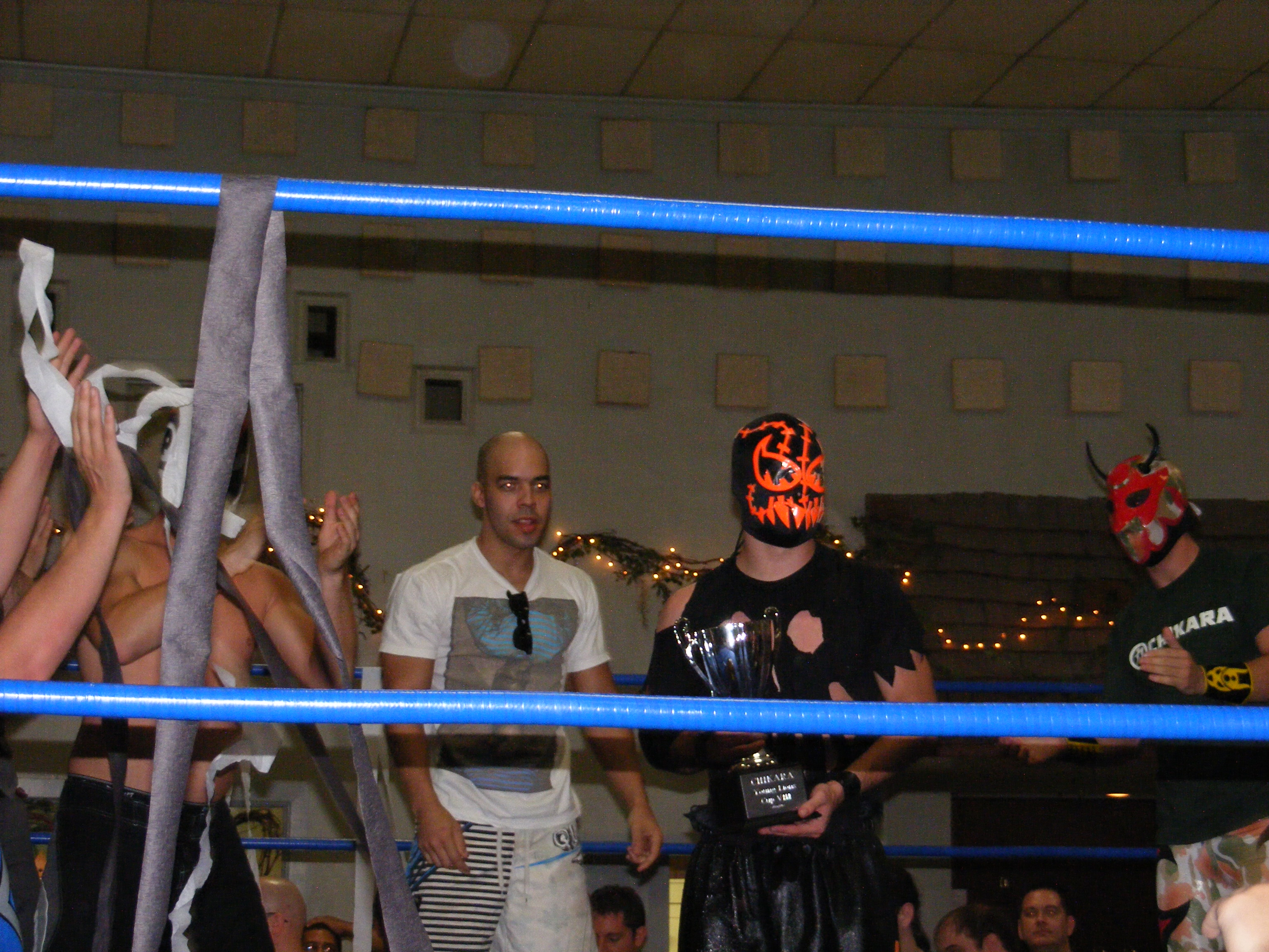 Professional wrestler Frightmare with the Chikara Young Lions Cup, surrounded by the Chikara locker room